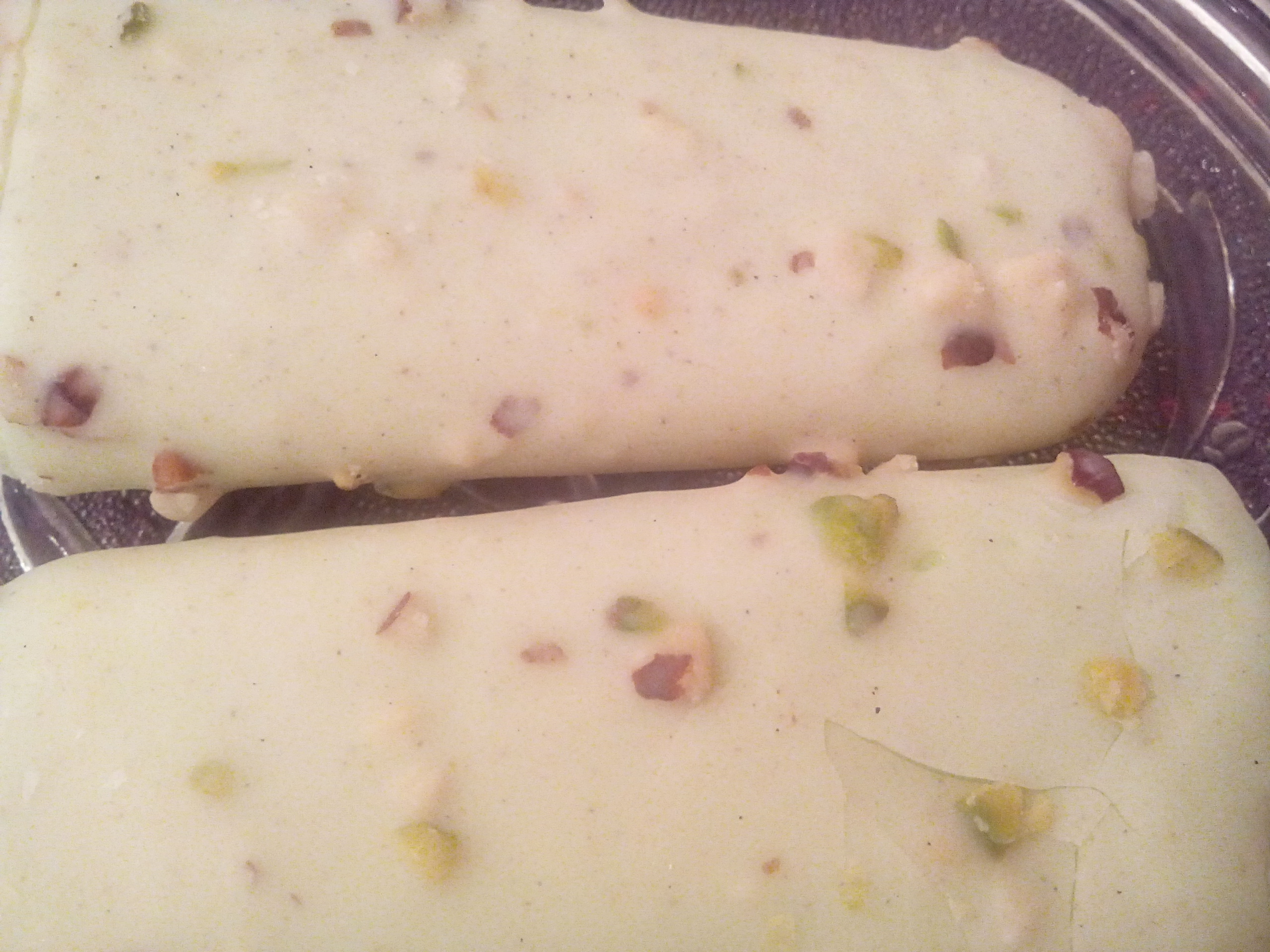 Pista Kulfi is one of the most liked Indian styled ice creams which are served and eaten in almost all Indian lavish parties and formal gatherings as an after meal dessert. It consists of milk, sugar and pistachios as primary ingredients.